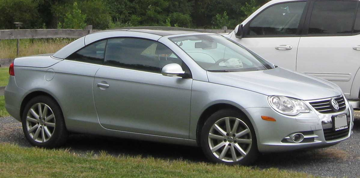 Volkswagen Eos photographed in Highland, Maryland, USA.